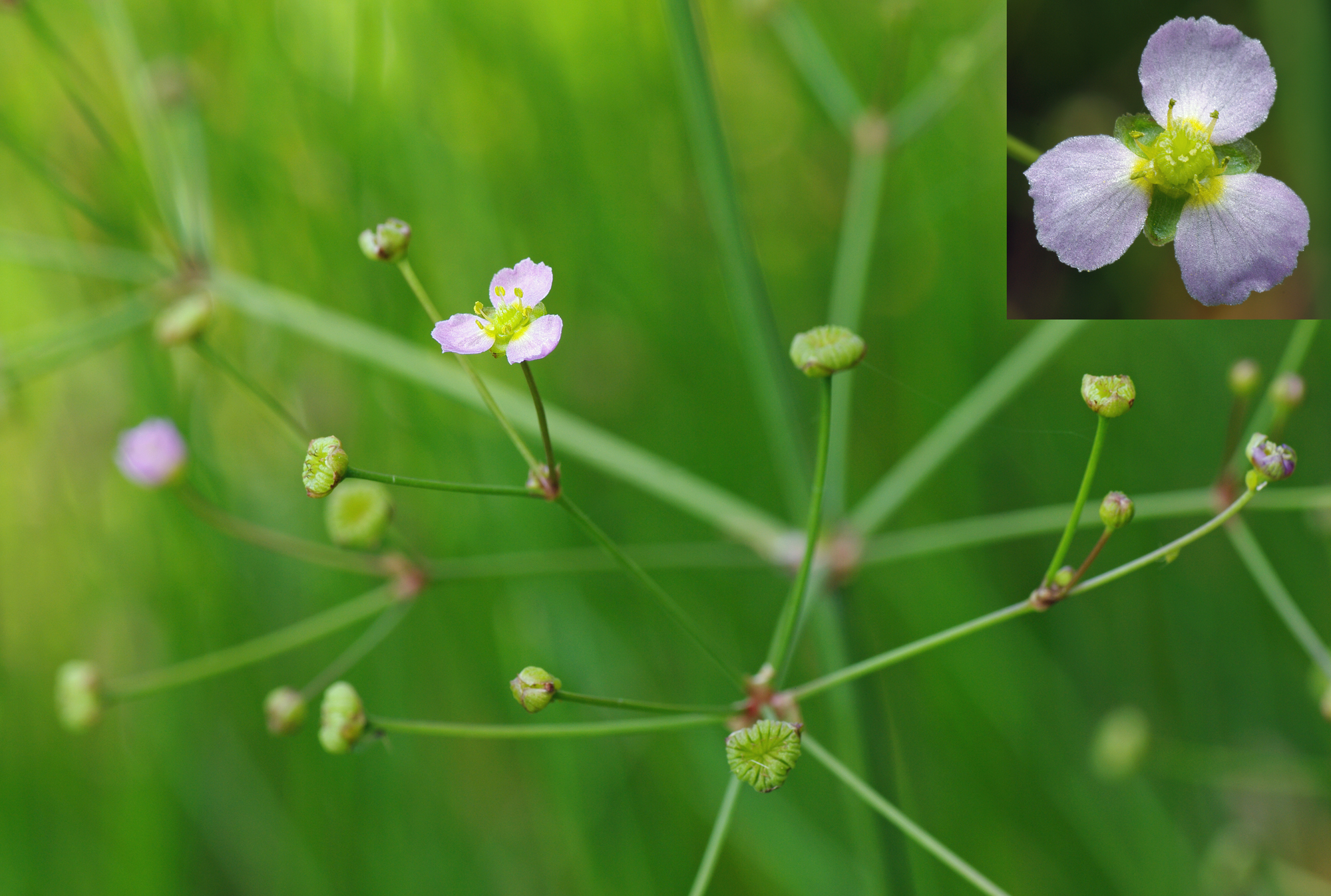 Lanceleaf water plantain, Alisma lanceolatum, part of inflorescence and enlarged single blossom.